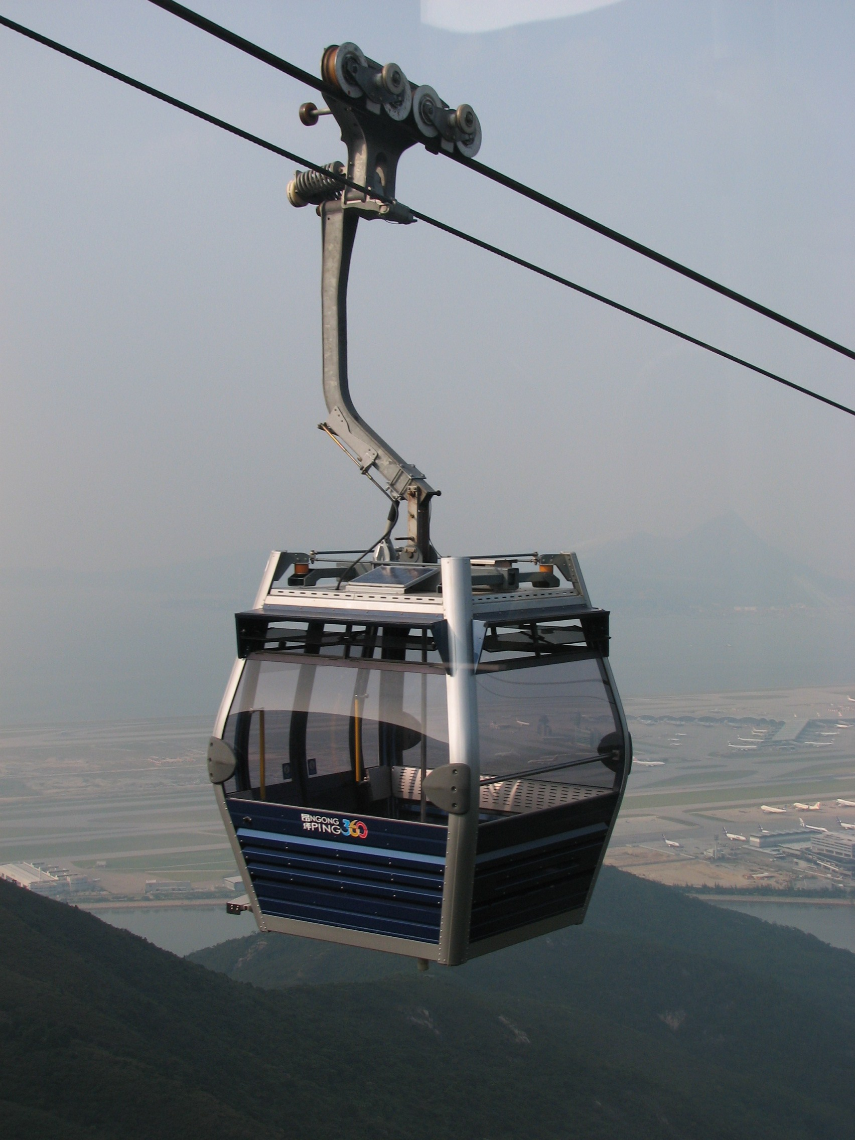 A cabin of Ngong Ping Skyrail cable car, with the Hong Kong International Airport behind.